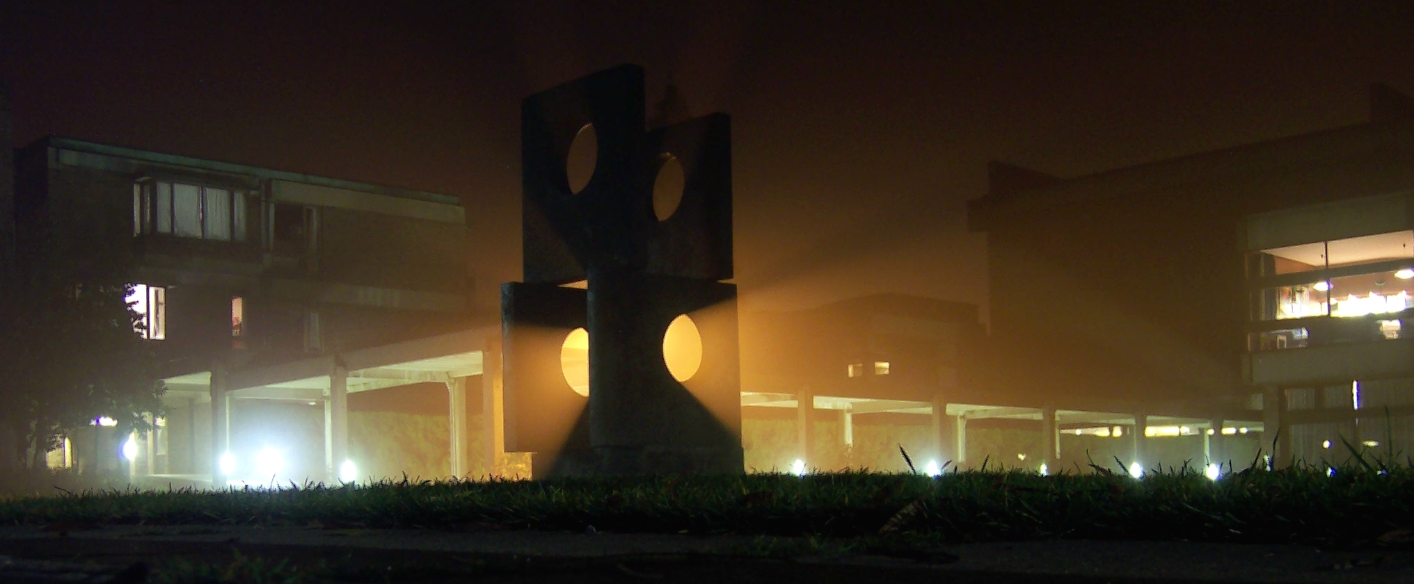 Photo, I took myself, of the Hepworth Statue at Churchill College. Anyone is free to use it, although I'd appreciate being credited. Hepworth’s Four square walk-through is large enough for many students to work and play on—which they are allowed to do (caption from Churchill College, Cambridge)